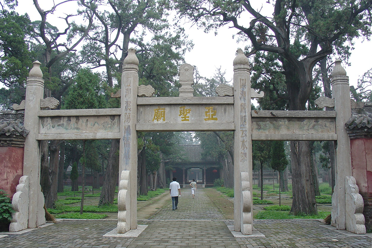 Mencius Temple, Zoucheng, Shandong